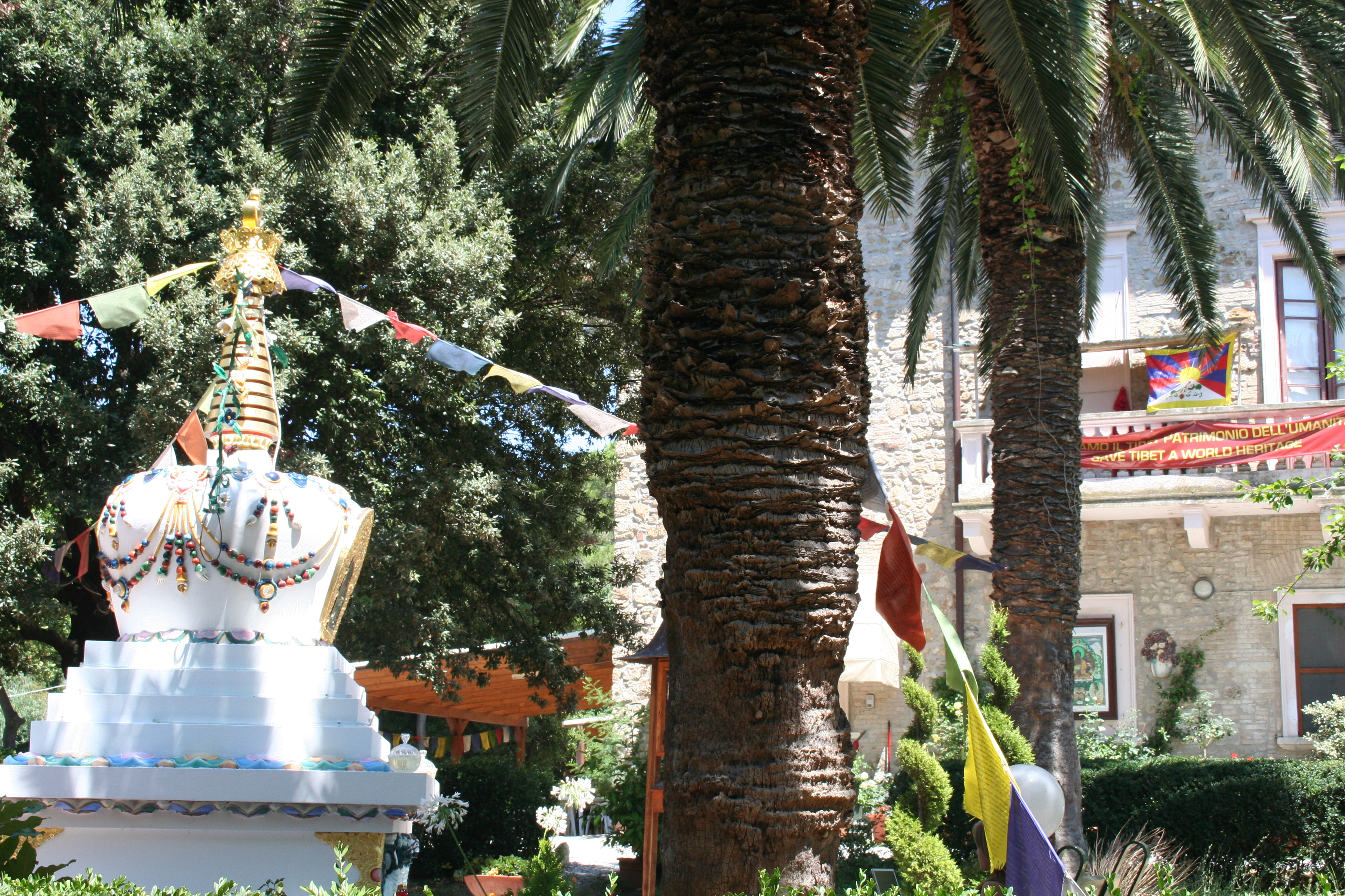 Institut Lama Tsong Khapa, Stupa, Main Building